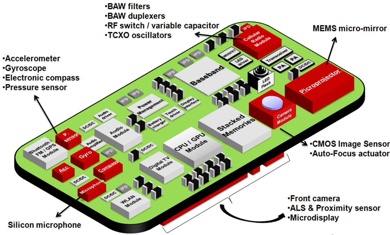 Micro Electro-Mechanical System sensors include accelerometers to create portrait or landscape views on display screens, gyroscopes, ambient light sensors and magnetometers to help with GPS; proximity sensors to recognize when you are talking on the phone and turn off your touchpad; and touch interface sensors for scrolling and opening apps. Intel Free Press story: Sensor Data Grows the Cloud. From fire departments and oil rigs to tablets to smartphones, sensors relentlessly capture data.